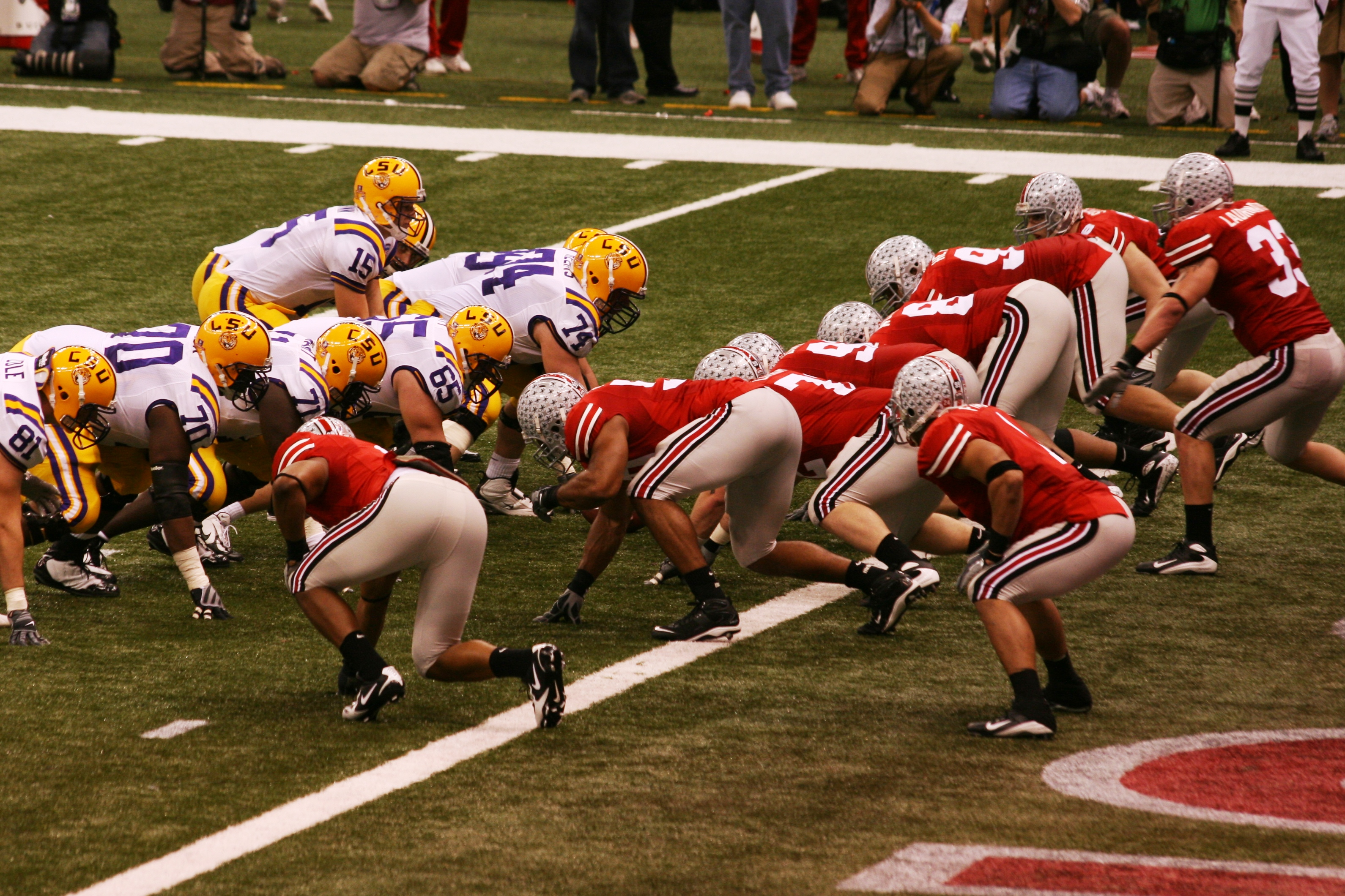 Ohio State lines up against LSU in the BCS National Championship game